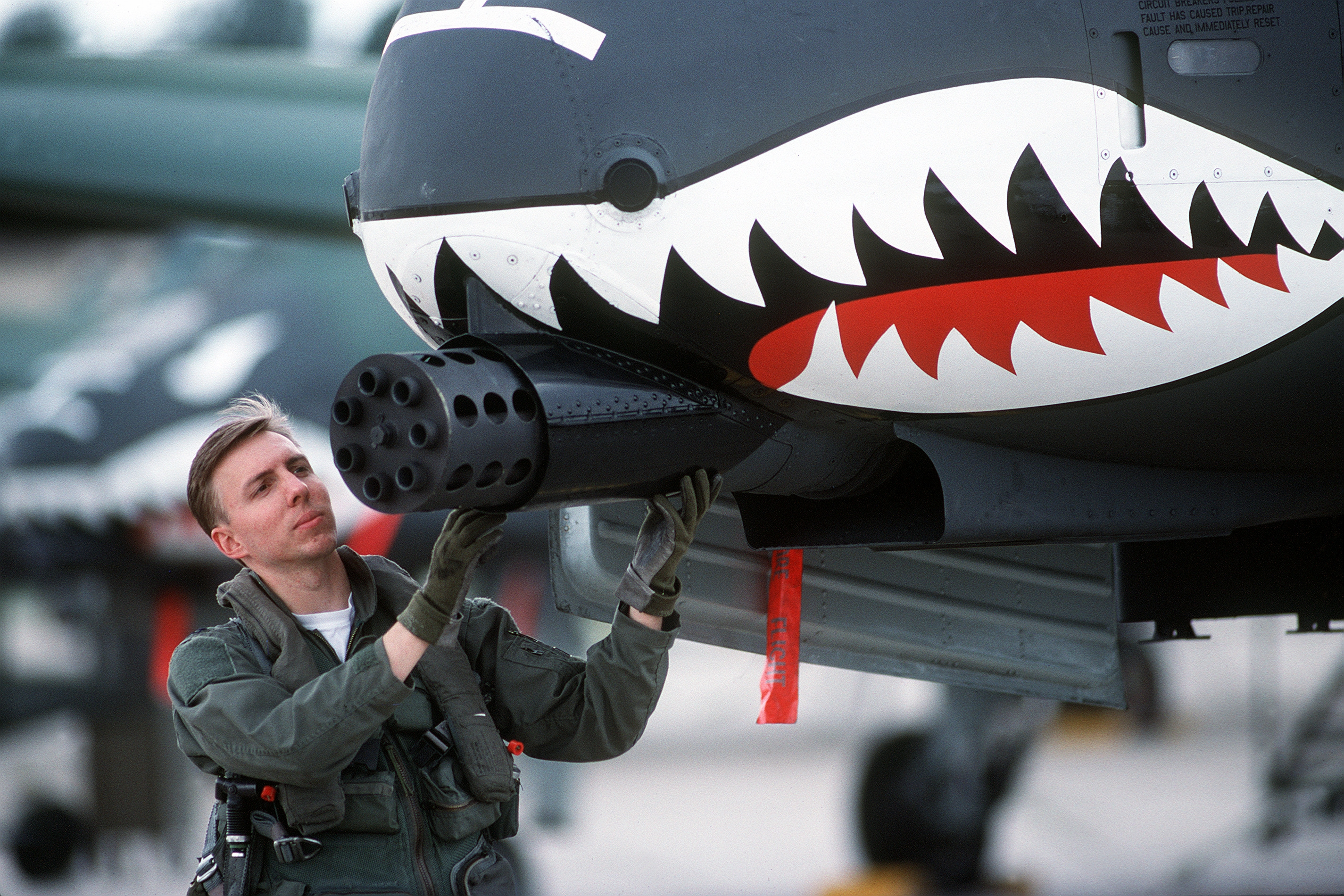 Capt. Todd Sheehy, 75th Fighter Squadron, inspects the GAU-8A 30mm gun on an A-10A Thunderbolt II aircraft. The squadron was recently activated under the 23rd Wing to support Army operations at Fort Bragg.